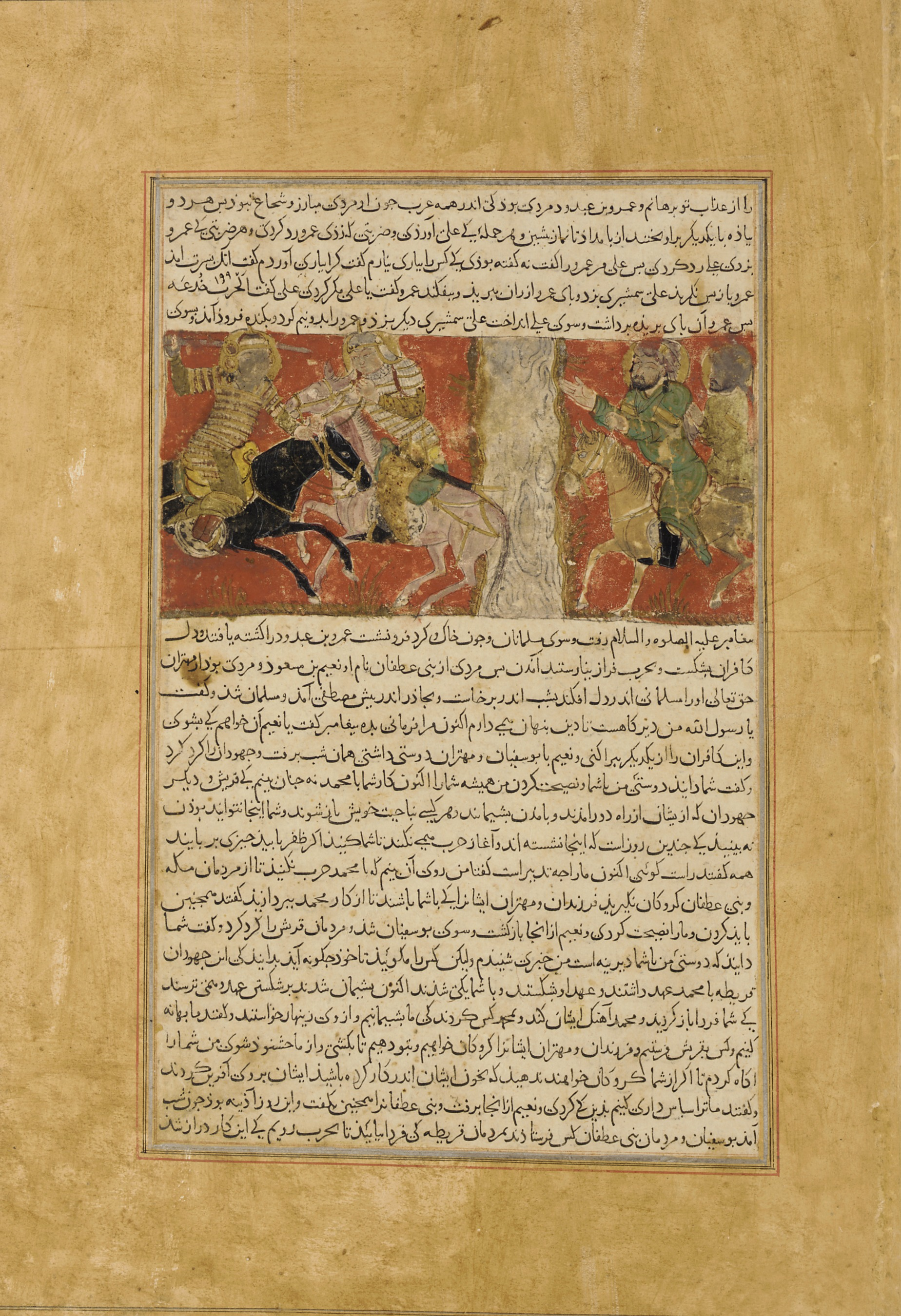 Folio from a Tarikhnama (Book of history) by Balami